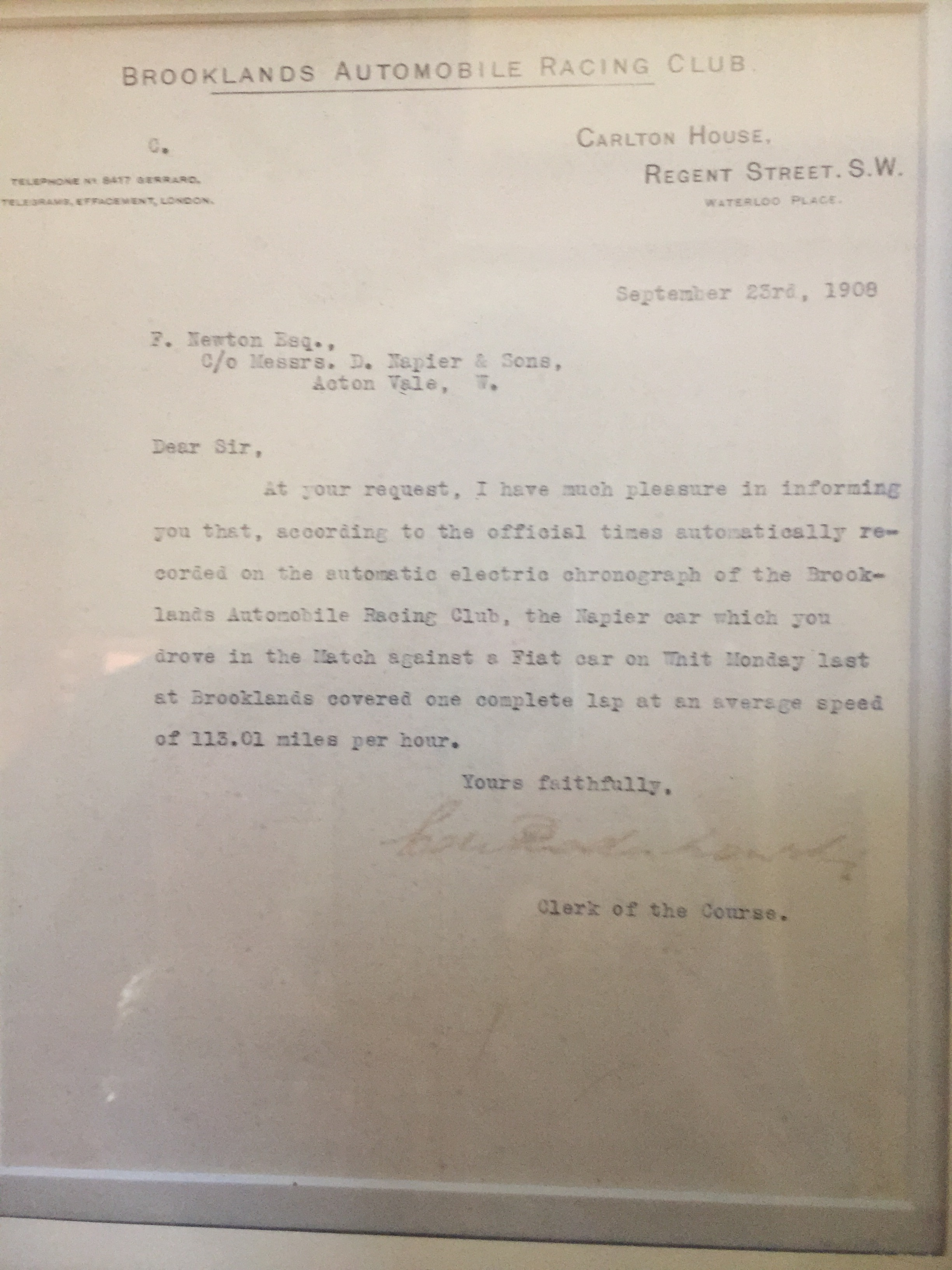 The certificate from Brooklands Automobile Racing Club to Frank Newton recording how fast 'The Meteor' achieved in 1908.